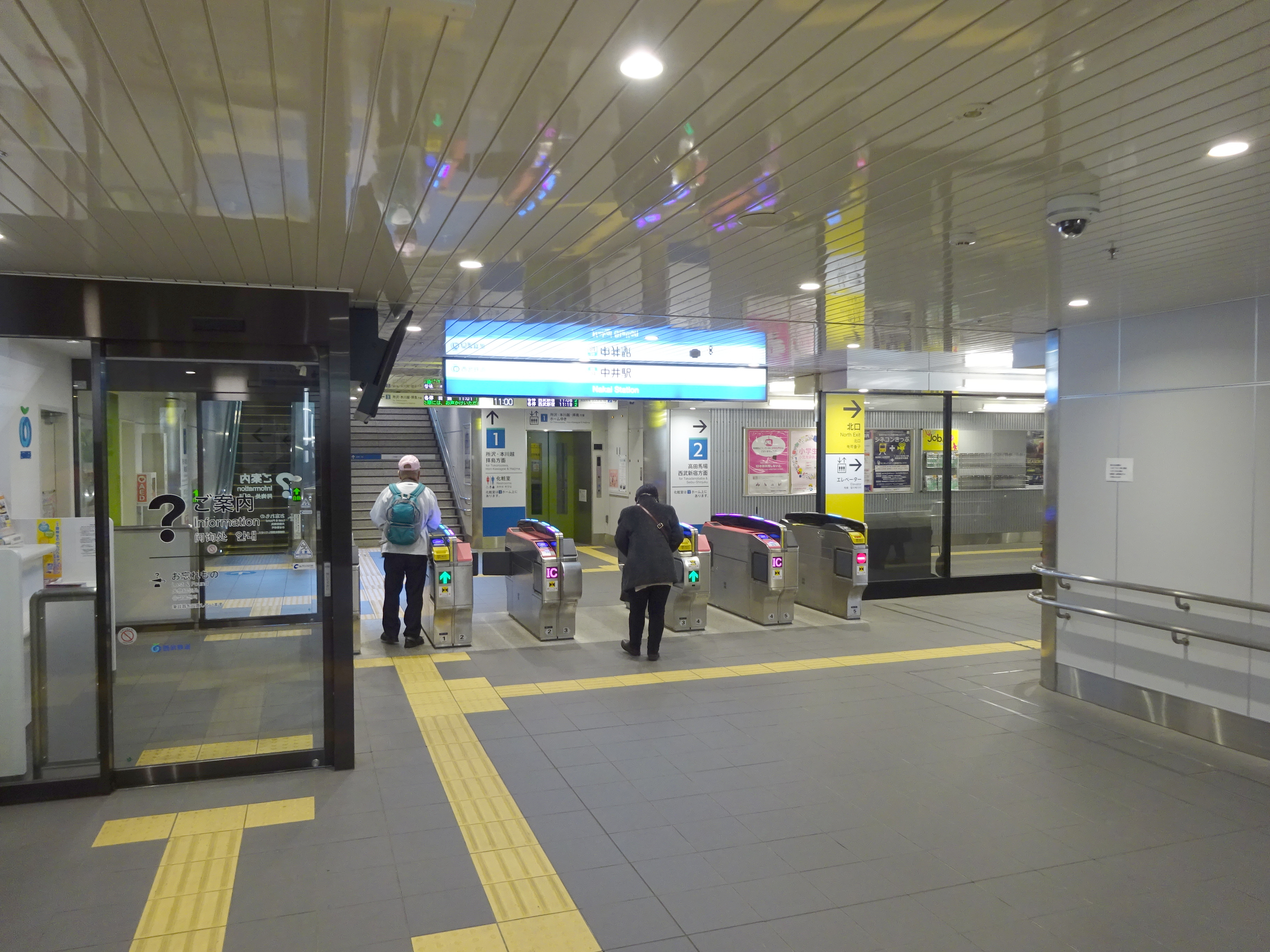 Ticket barriers of Nakai Station (Seibu Railway)